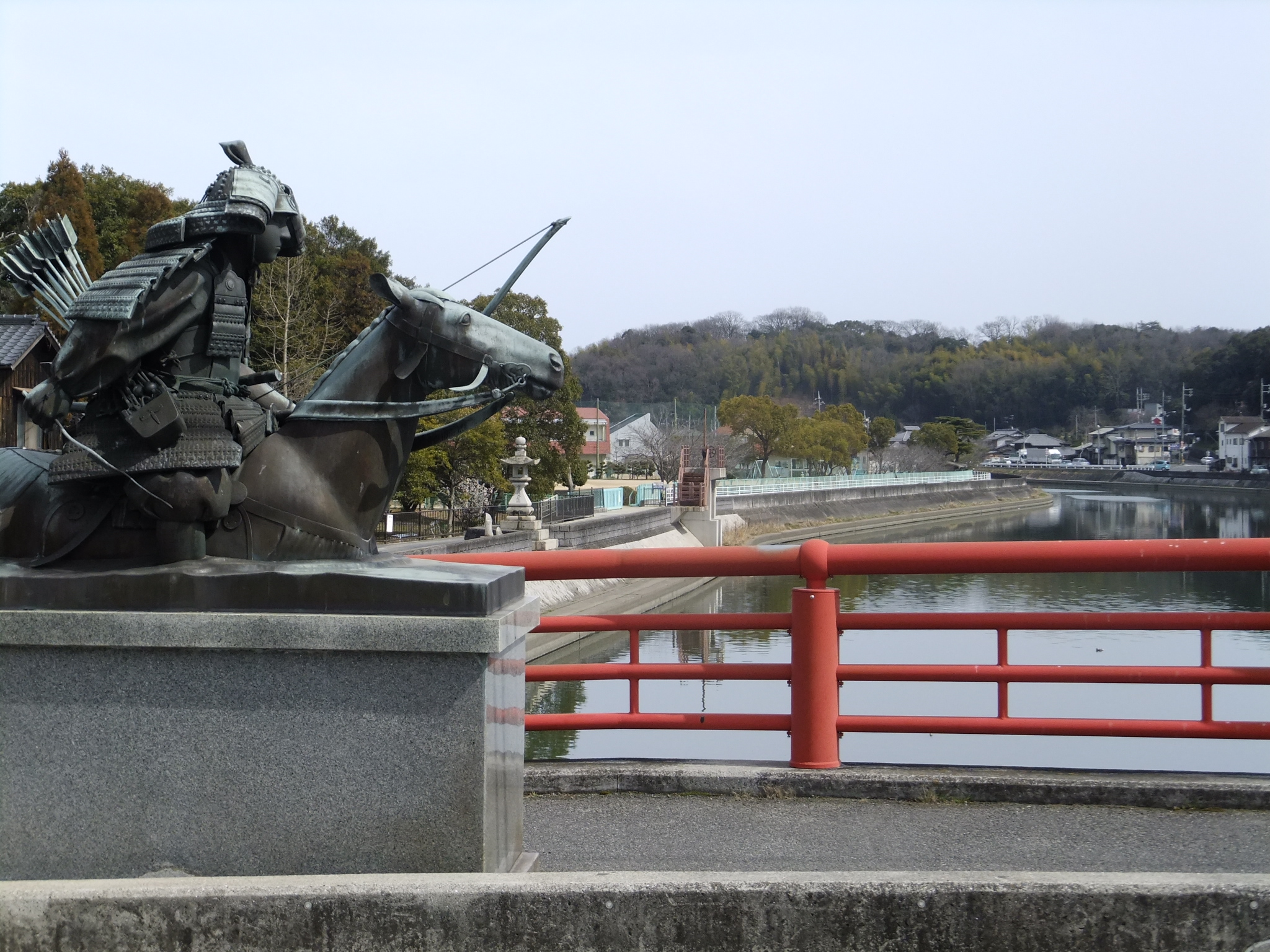 Bronze statue of Sasaki Morituna on Morituna Bridge.